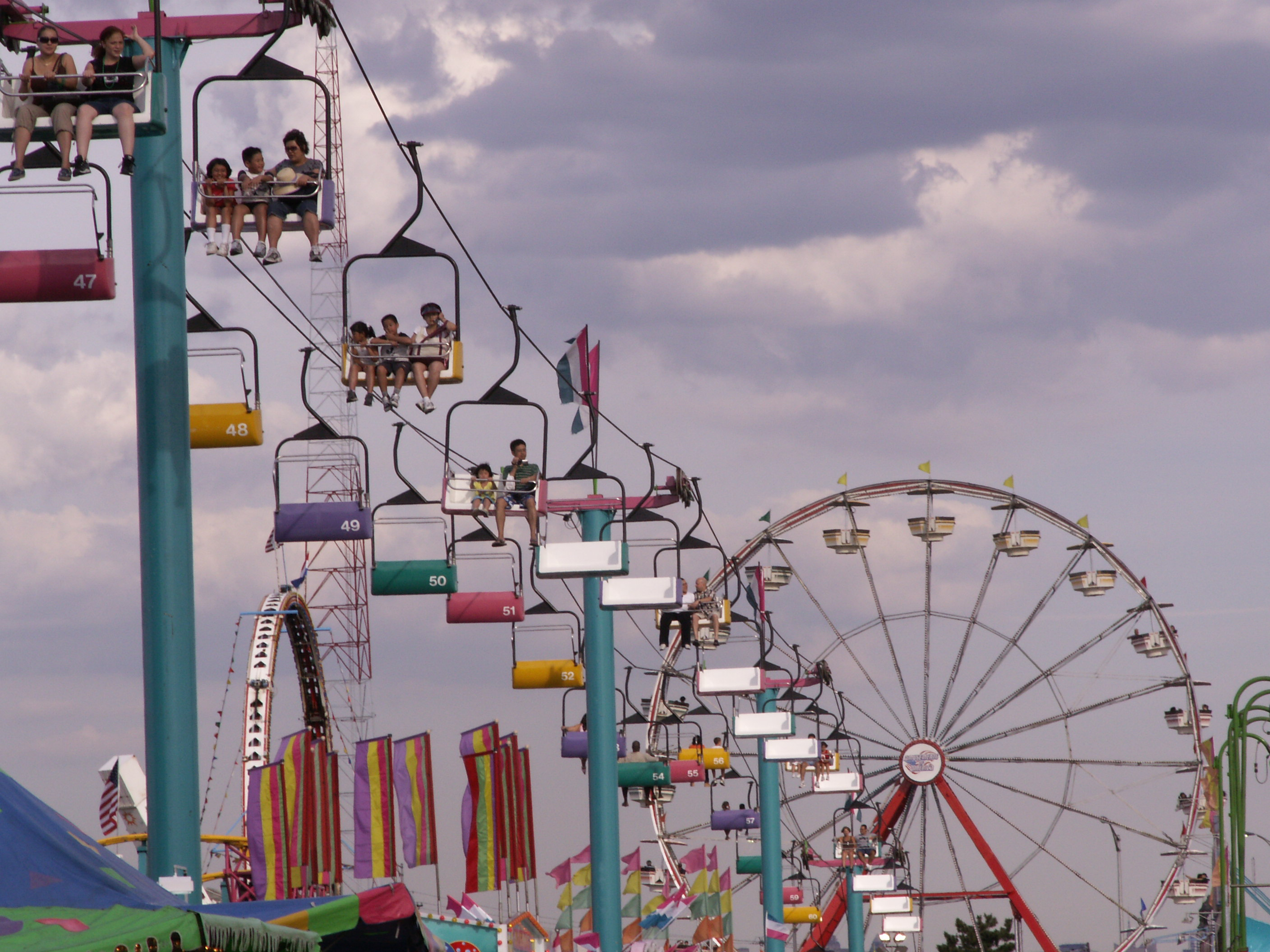 Giants Stadium parking lot, East Rutherford, NJ